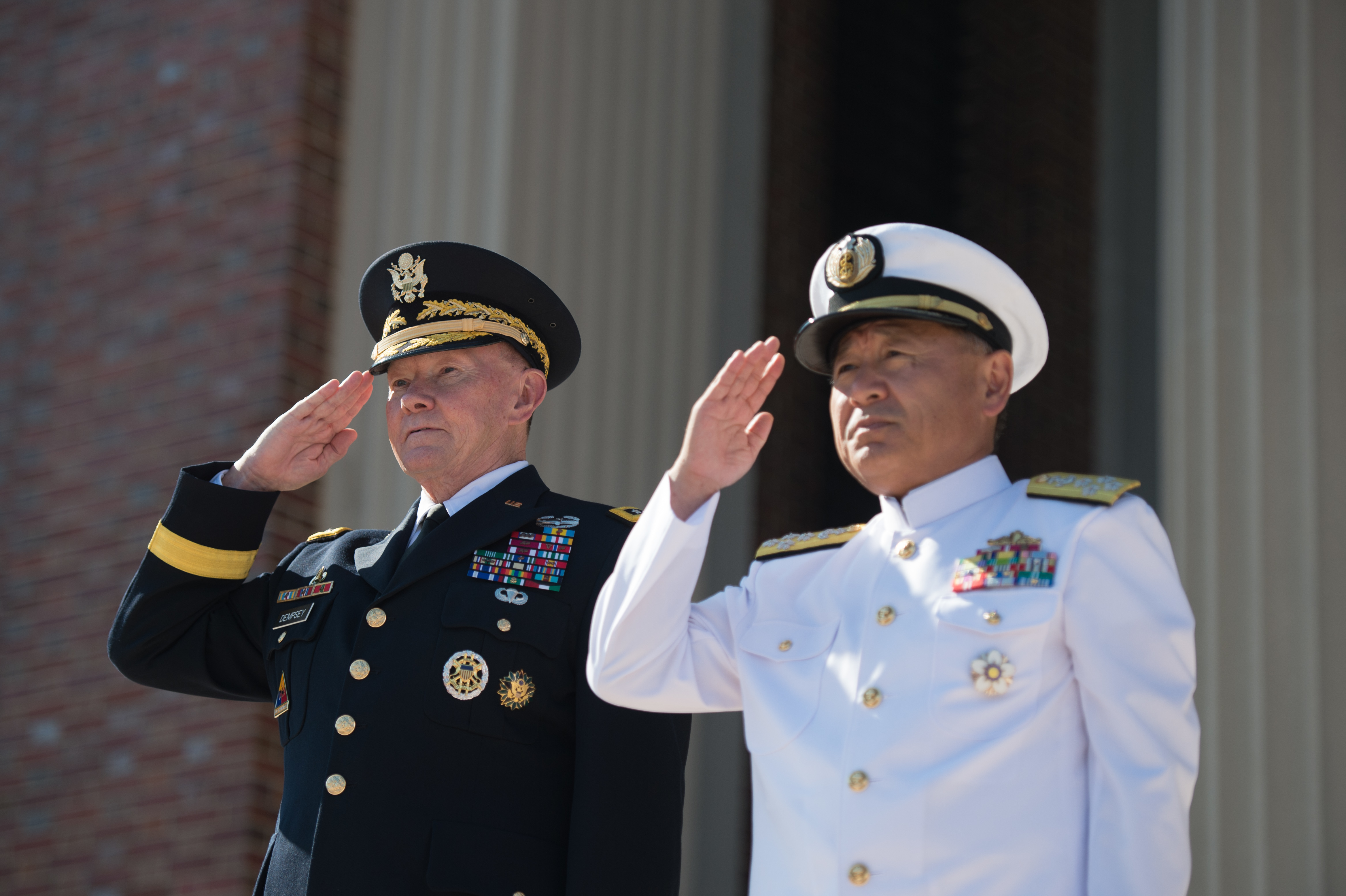 Eighteenth Chairman of the Joint Chiefs of Staff Gen. Martin E. Dempsey and his Japanese counterpart Adm. Katsutoshi Kawano render honors during the playing of the their respective national anthems during a Defense Chiefs Strategy Dialogue at Roosevelt Hall on Fort Lesley J. McNair in Washington, July 16, 2015. (DoD photo by Mass Communication Specialist 1st Class Daniel Hinton/released)